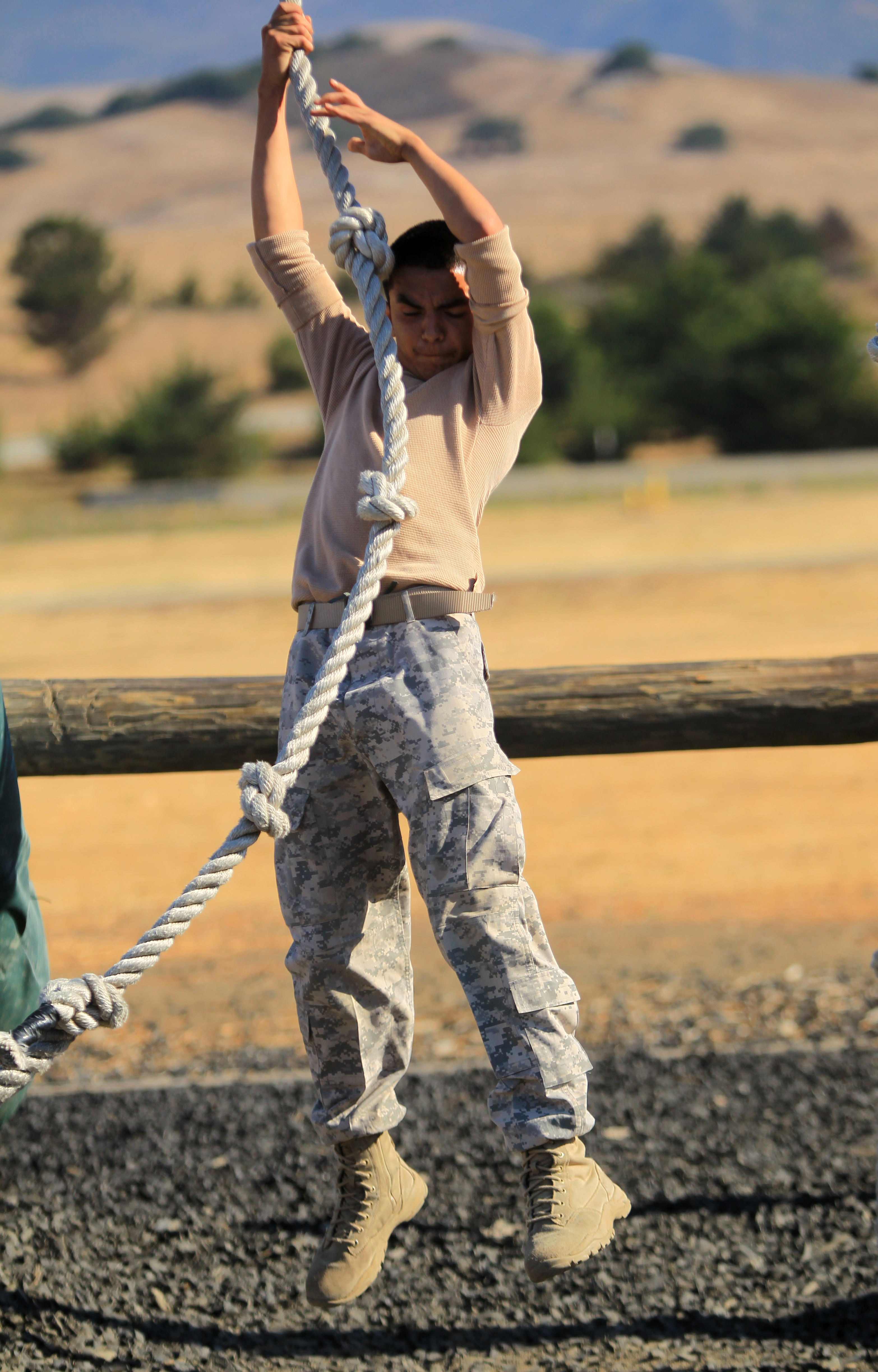 Cadet 1st Class Manuel Lozano, a junior at Riverside County Education Academy (RCEA), swings from a rope while completing an obstacle course during the first training day of a joint fall bivouac between cadets from RCEA and California Military Institute, Sept. 17, 2016, at Camp San Luis Obispo, California. The cadets are a mix of middle and high school grades ranging from 5th through 12th. (Air National Guard photo by Airman 1st Class Crystal Housman)